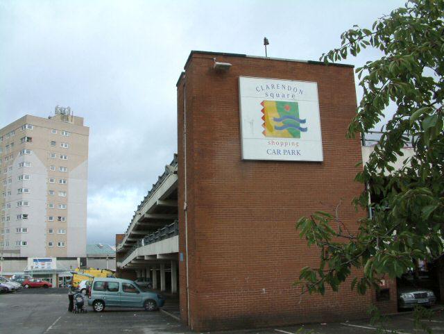 Clarendon Square Car Park Parking on the upper levels of the multi-storey car park is free. The block of flats which is above the shopping centre is John Grundy House.